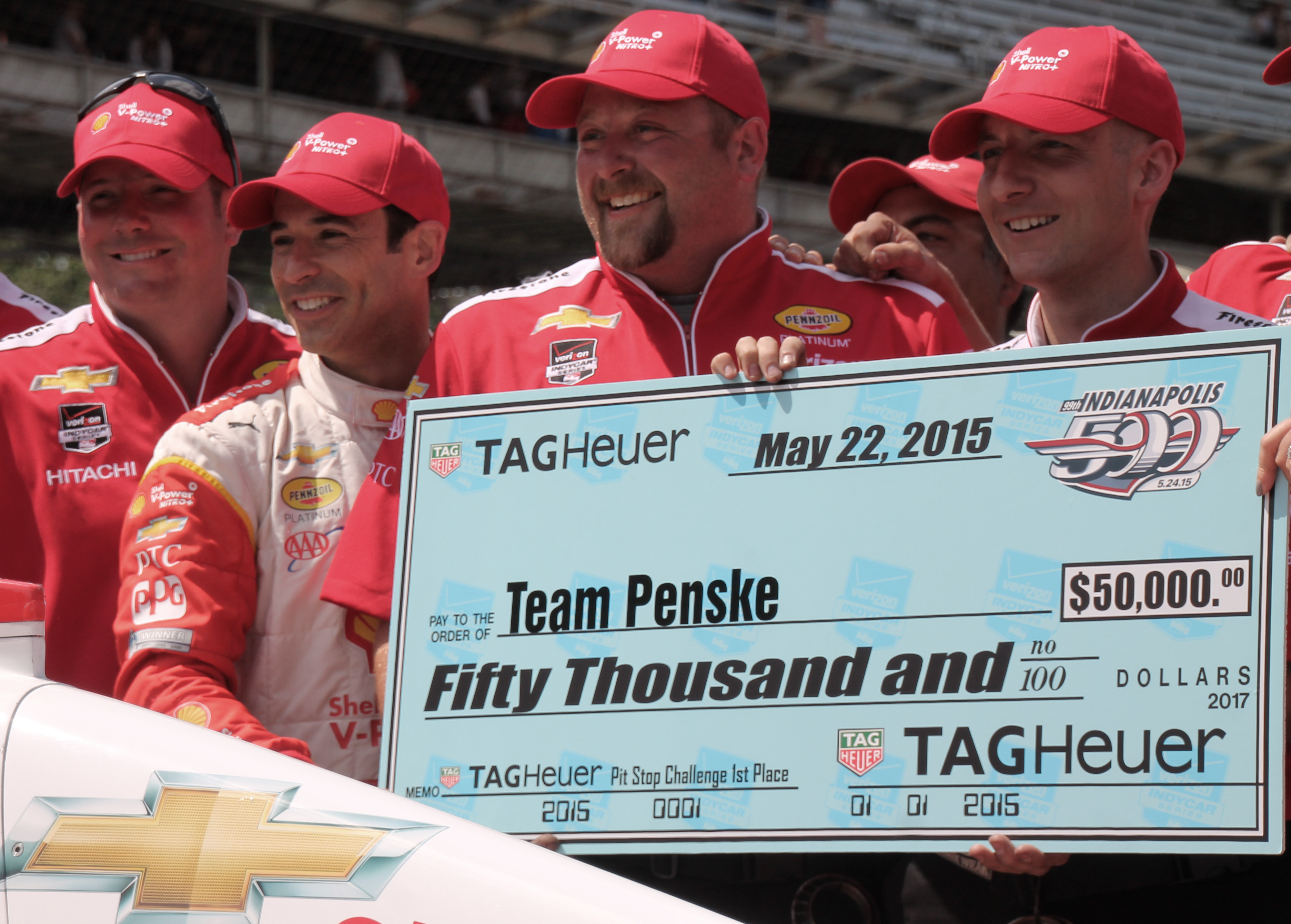 Team Penske celebrates winning the Pit Stop Challenge on Carb Day 2015 at the Indianapolis Motor Speedway